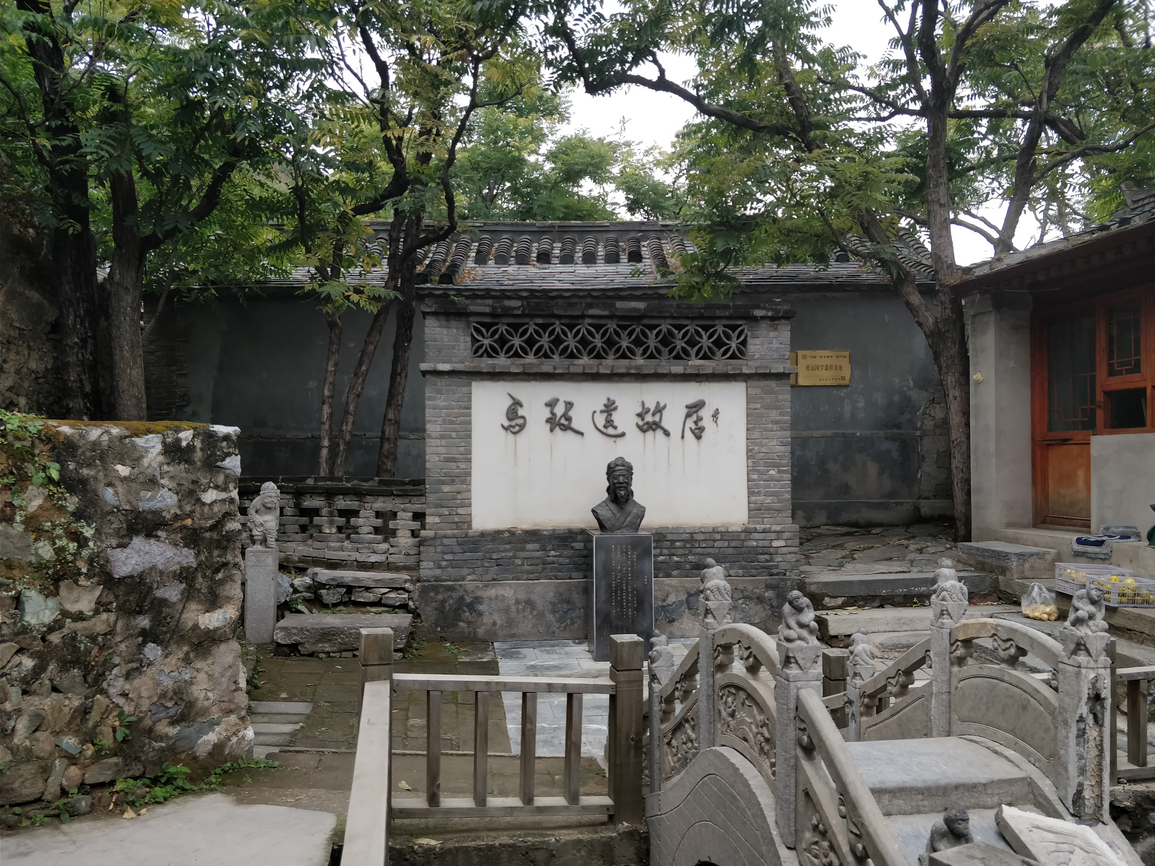 The Former Residence of Ma Zhiyuan in Beijing.